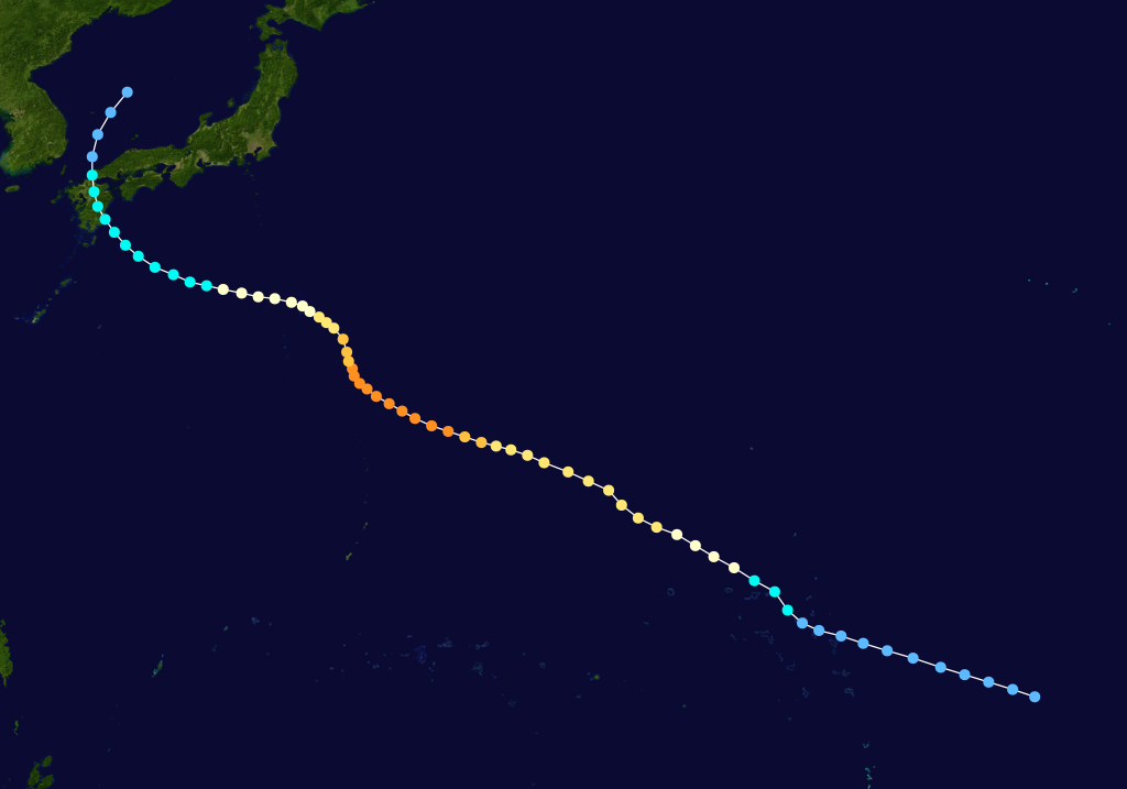 Typhoon Kent 1992 track. Uses the color scheme from the Saffir-Simpson Hurricane Scale.